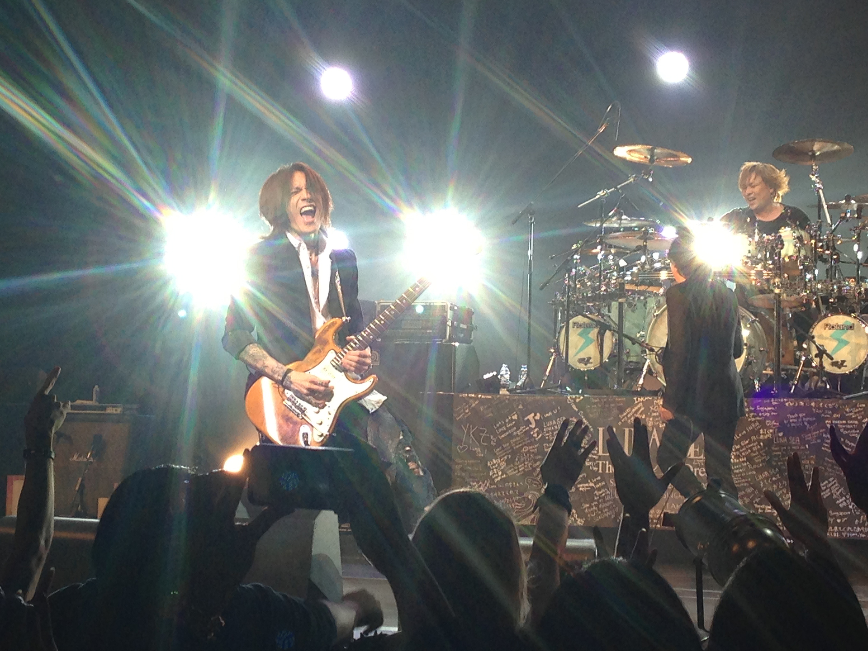 The image was taken by Chinnian on February 8, 2013, at the Luna Sea concert The End Of The Dream, Asian part of the tour, in Singapore.